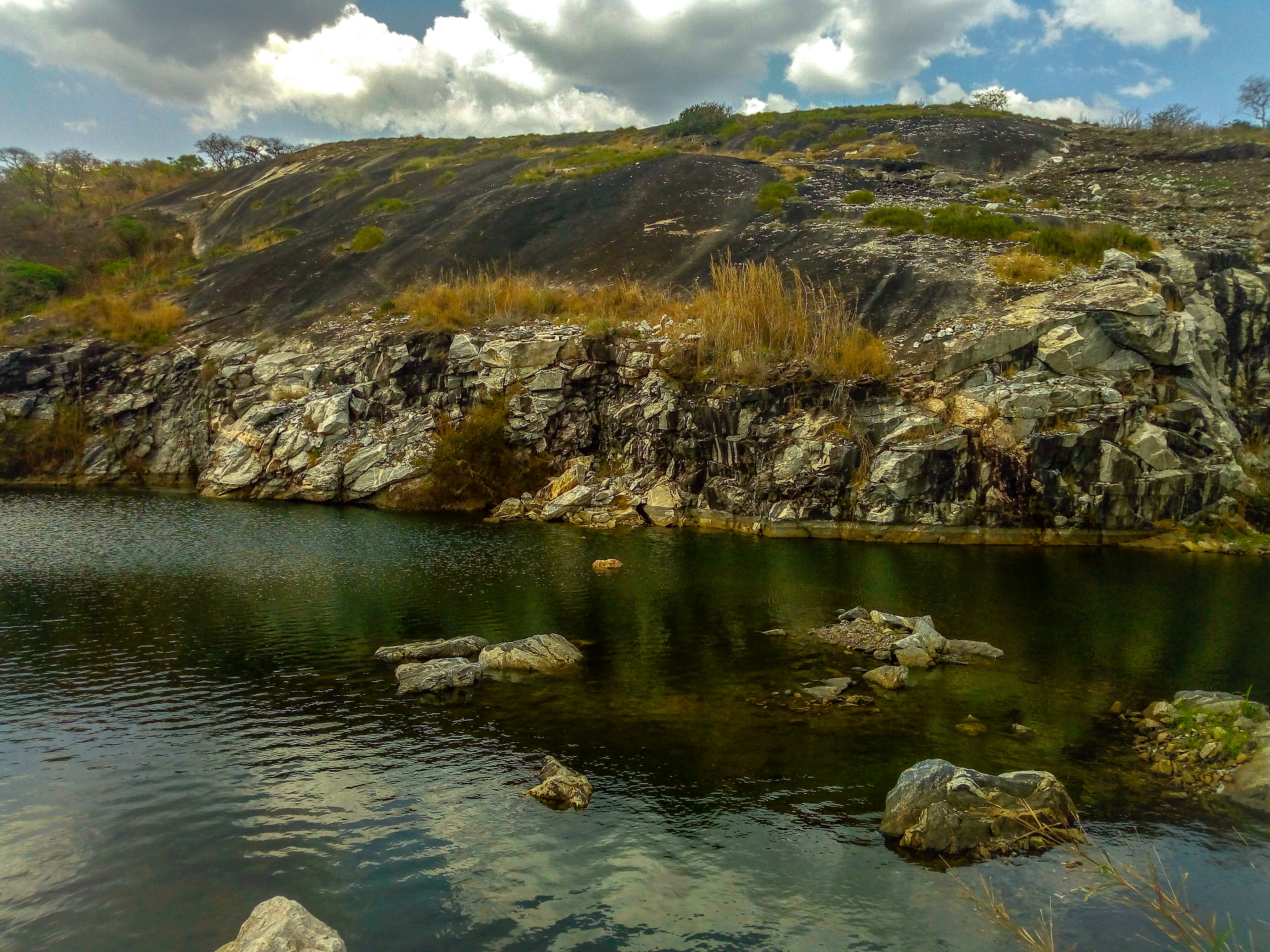 This place is a very quiet and beautiful place that makes me think perfectly. Whenever I'm bored I take a stroll to this hill, deep my leg into the water and relax. When I'm done, I take my time to climb up the highest part of the hill and see other parts of Ikole Town in tiny bits. I take my time up there and wait till sunset. The hill shows the best views of sunset and sunrise. It's one of the best place in Ikole. When I posted this picture in my school news bulletin. It became a newly found place for student to chill and relax and also go on an adventure base. I believe this place should not be hidden from the rest of world but could be made an historic for others to come and visit and sightsee.